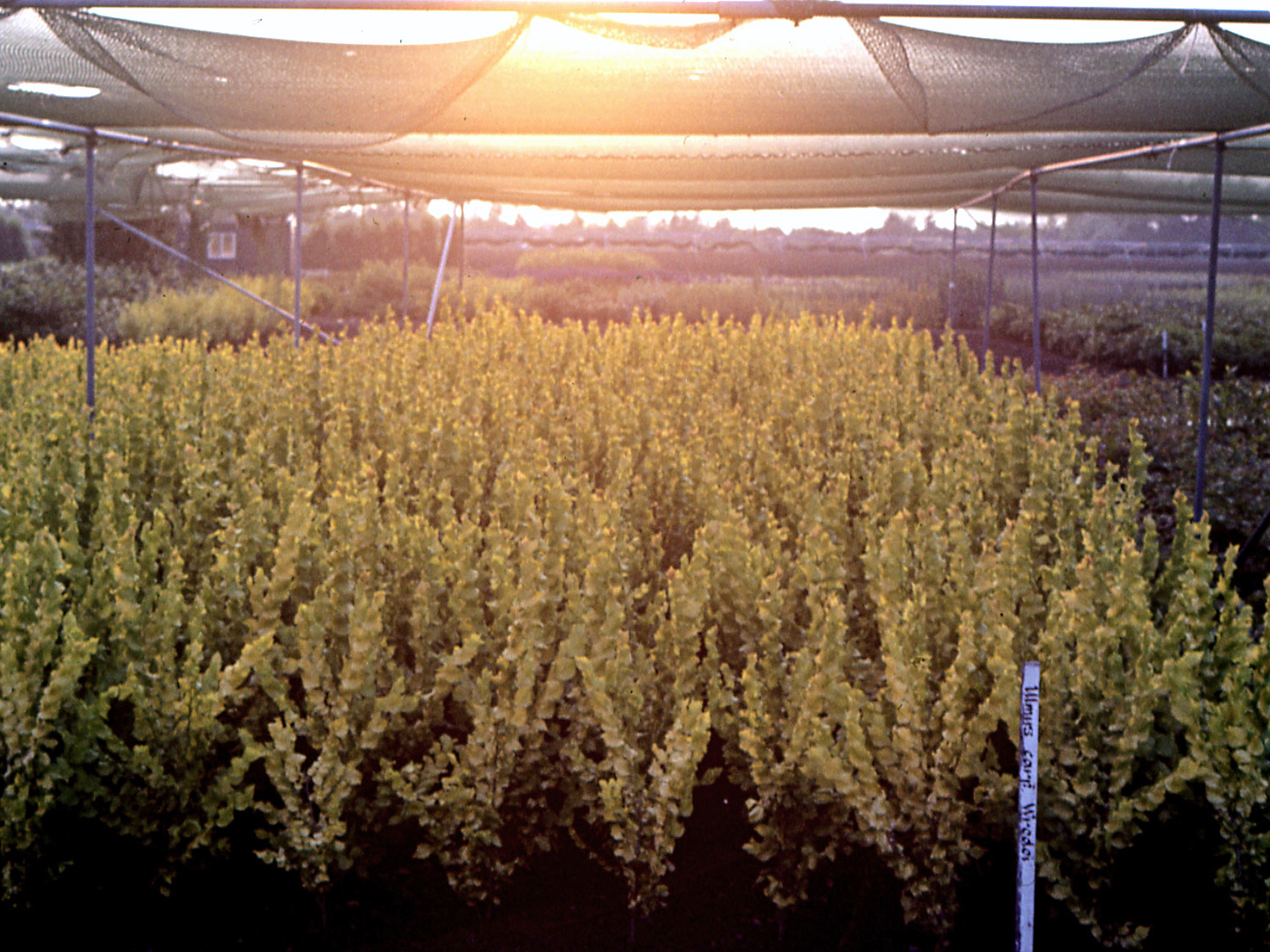 Ulmus x hollandica 'WREDEI' in Nursery (Joh.Stolwijk_en_zn.B.V. Boskoop, 1984, photo Mihailo Grbić)